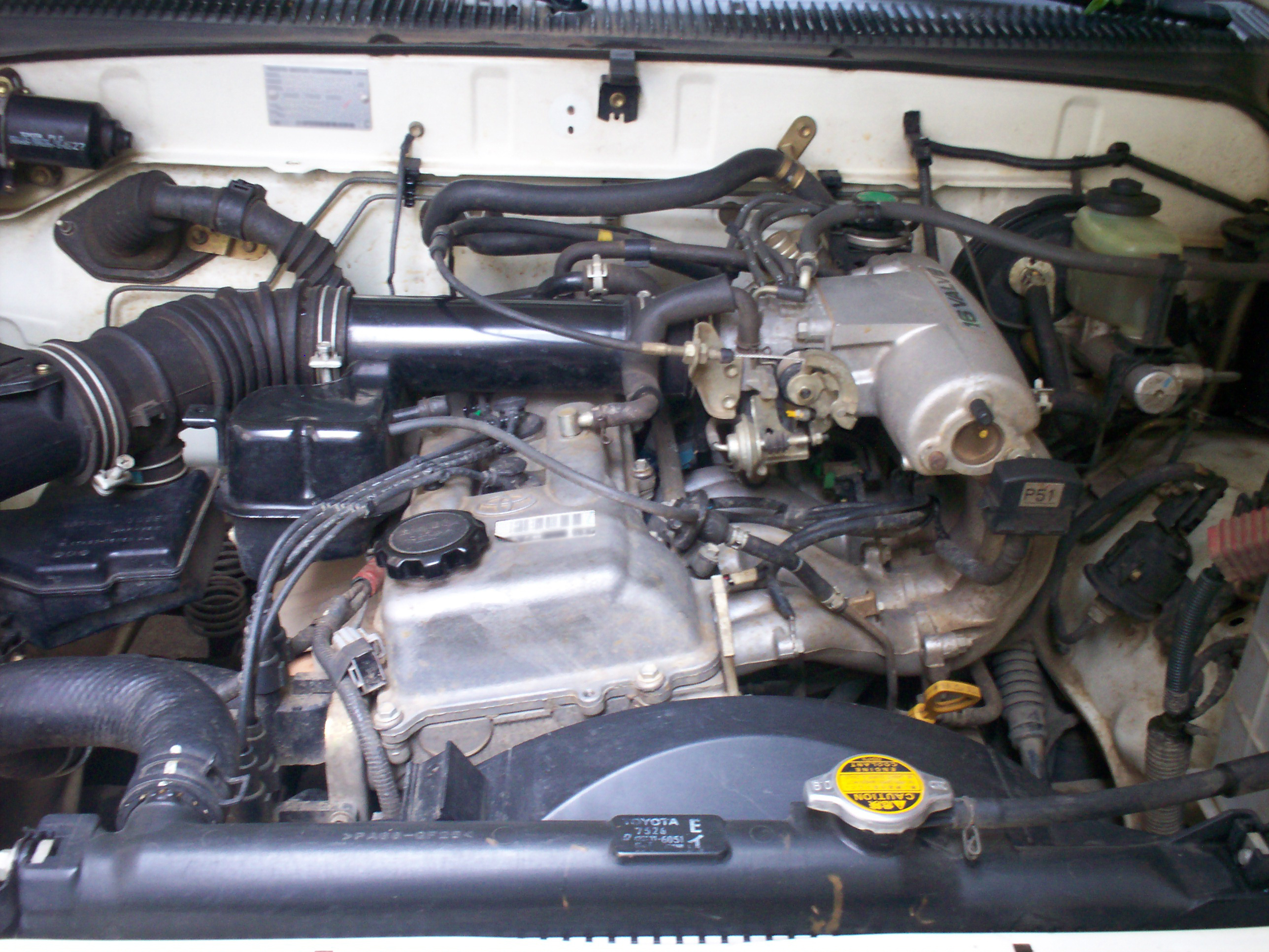 Engine bay of a 1999 Toyota Hilux (RZN148L), showing its completely stock 2RZ-FE engine.